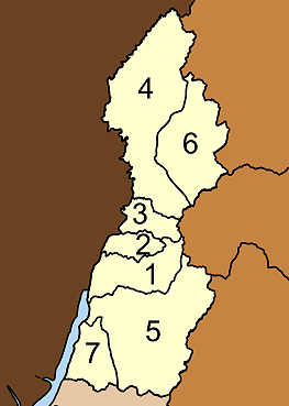 Map of Kraburi district, Ranong province, with the communes (tambon) numbered Namchuet (น้ำจืด) Namchuet Noi (น้ำจืดน้อย) Ma Mu (มะมุ) Pak Chan (ปากจั่น) Lamliang (ลำเลียง) Cho Po Ro (จ.ป.ร.) Bang Yai (บางใหญ่)